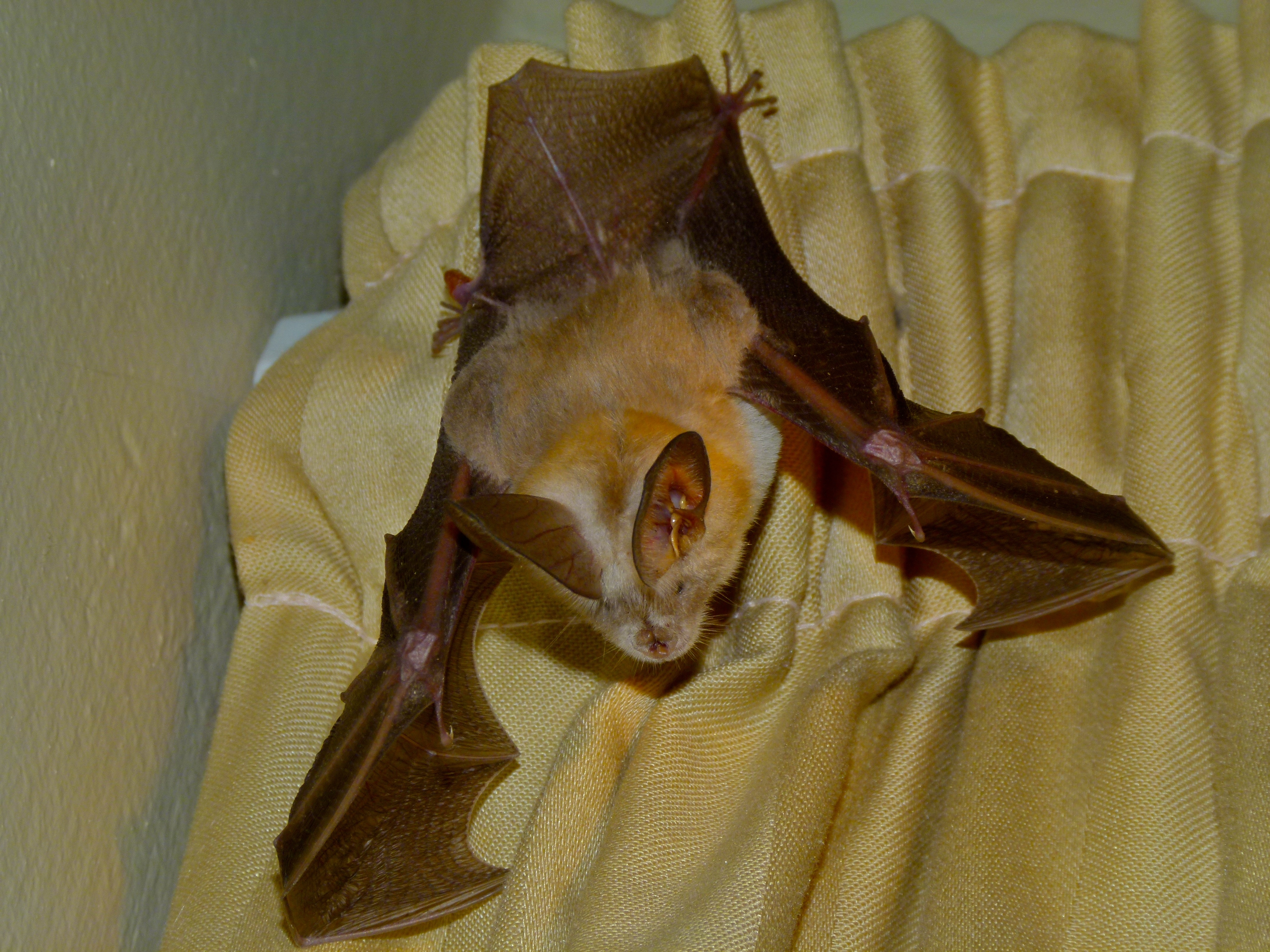 Nossob Camp, Kgalagadi Transfrontier Park, SOUTH AFRICA